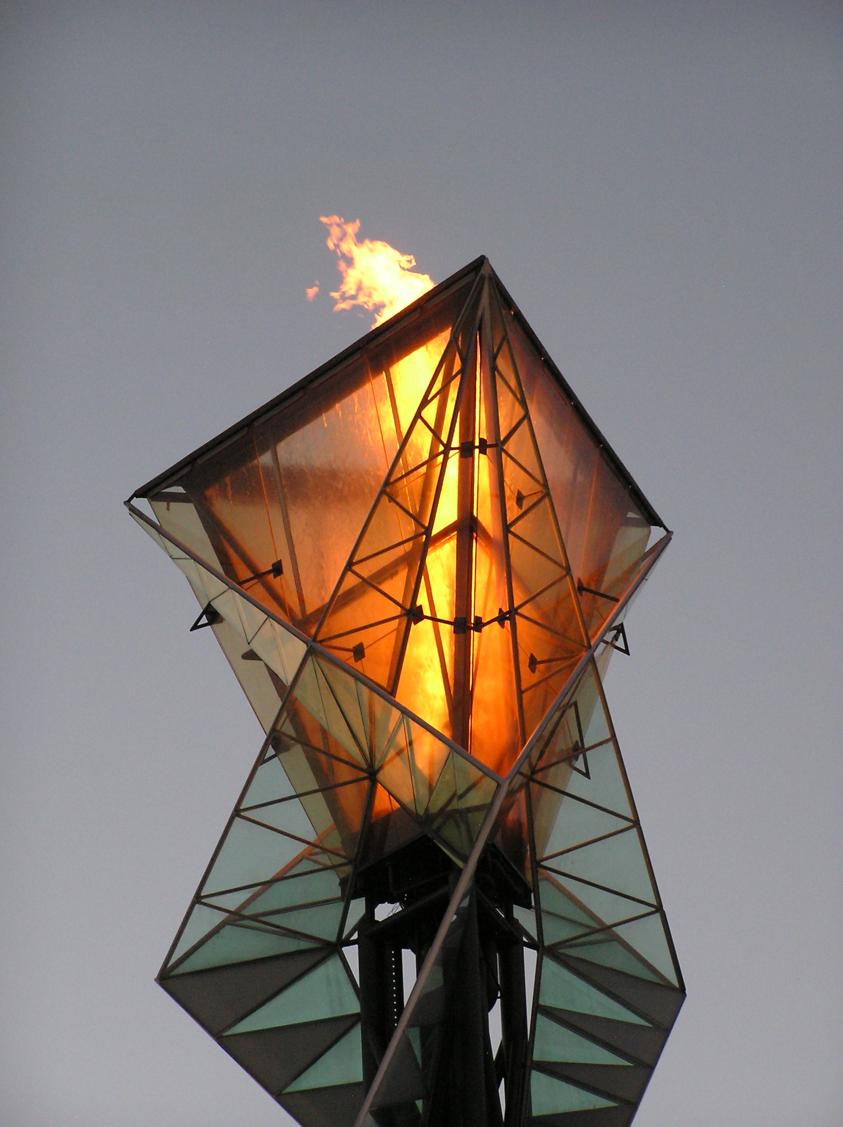 Close-up of 2002 Olympic cauldron located at the 2002 Olympic Cauldron Park on the campus of the University of Utah.